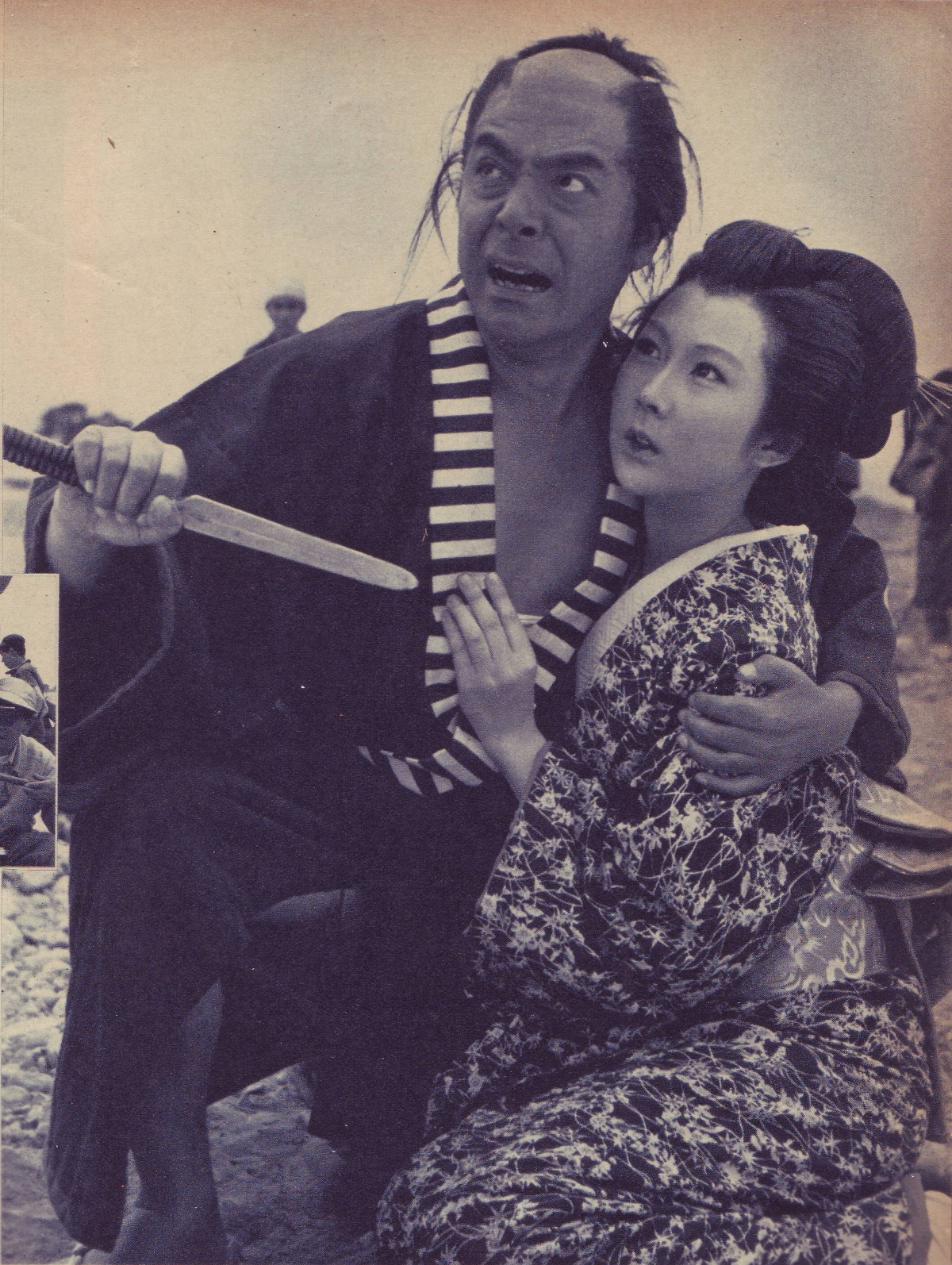 Michiko Saga (right) and Jun Tazaki in Making of Shintoho Film "Gero no Kubi" (1955).